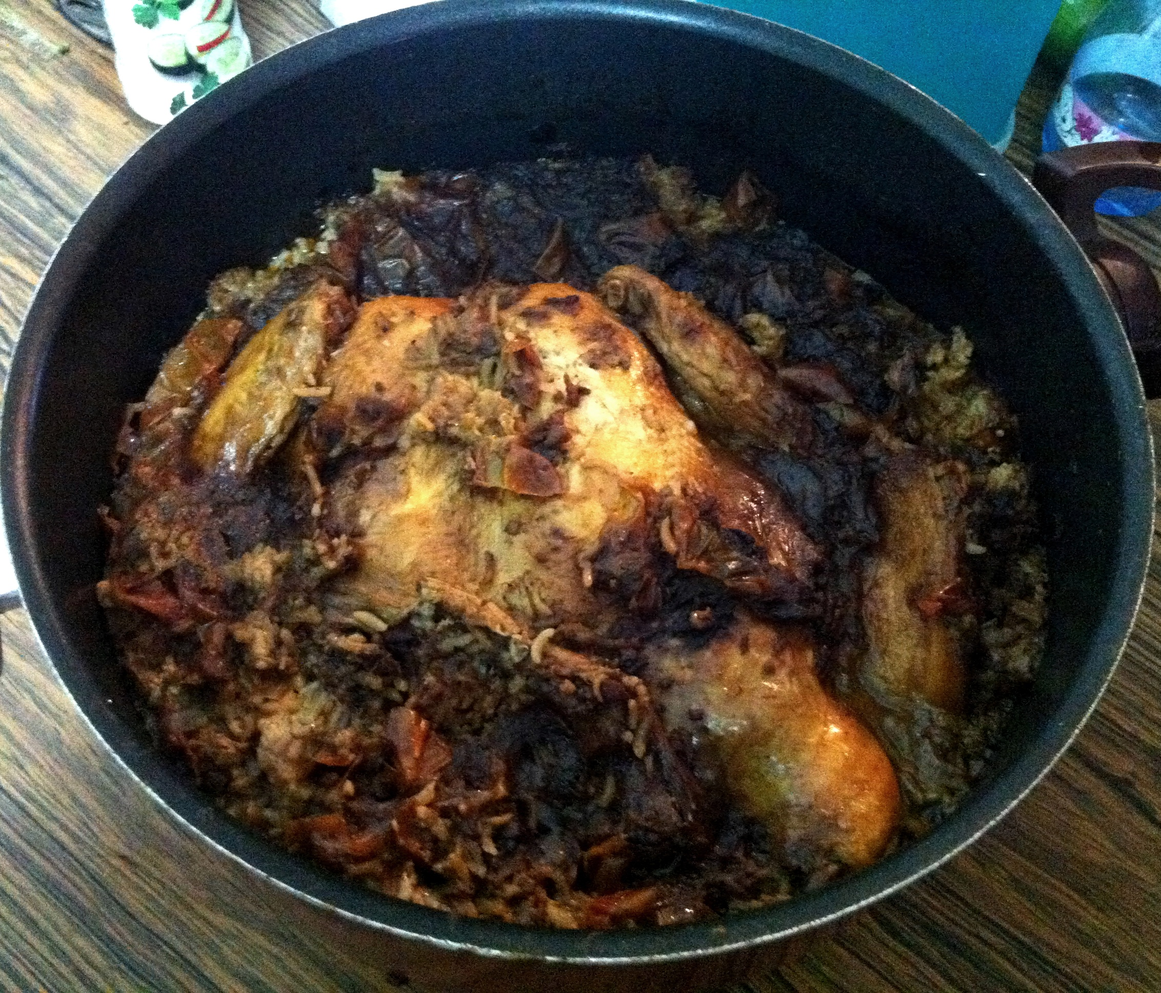 Chamin 2011